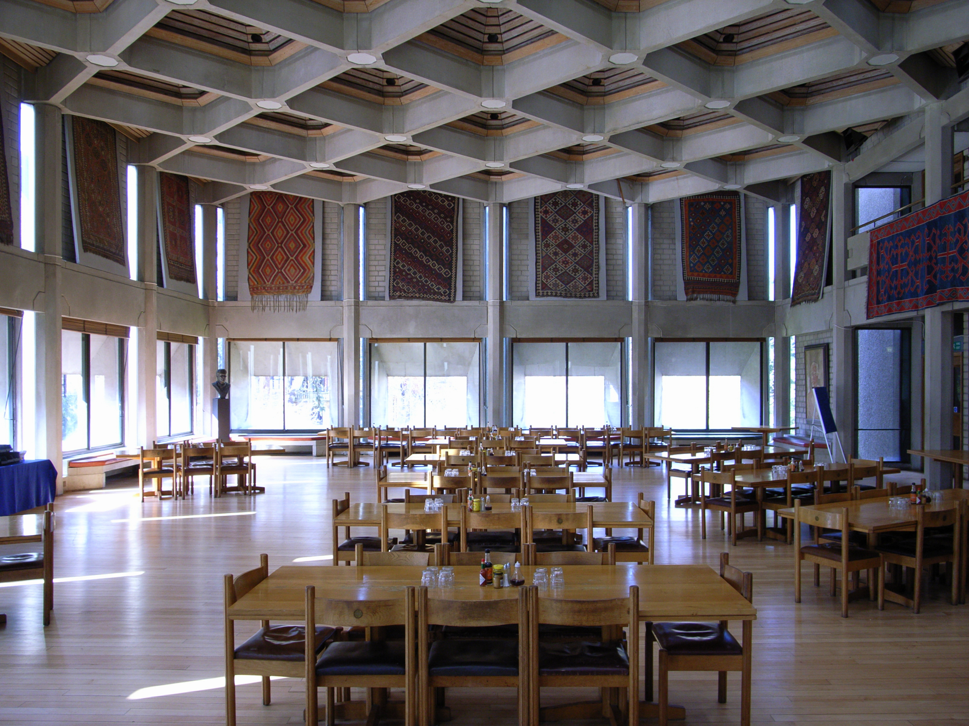 The main hall in St Antony's College's Hilda Besse building, Oxford.